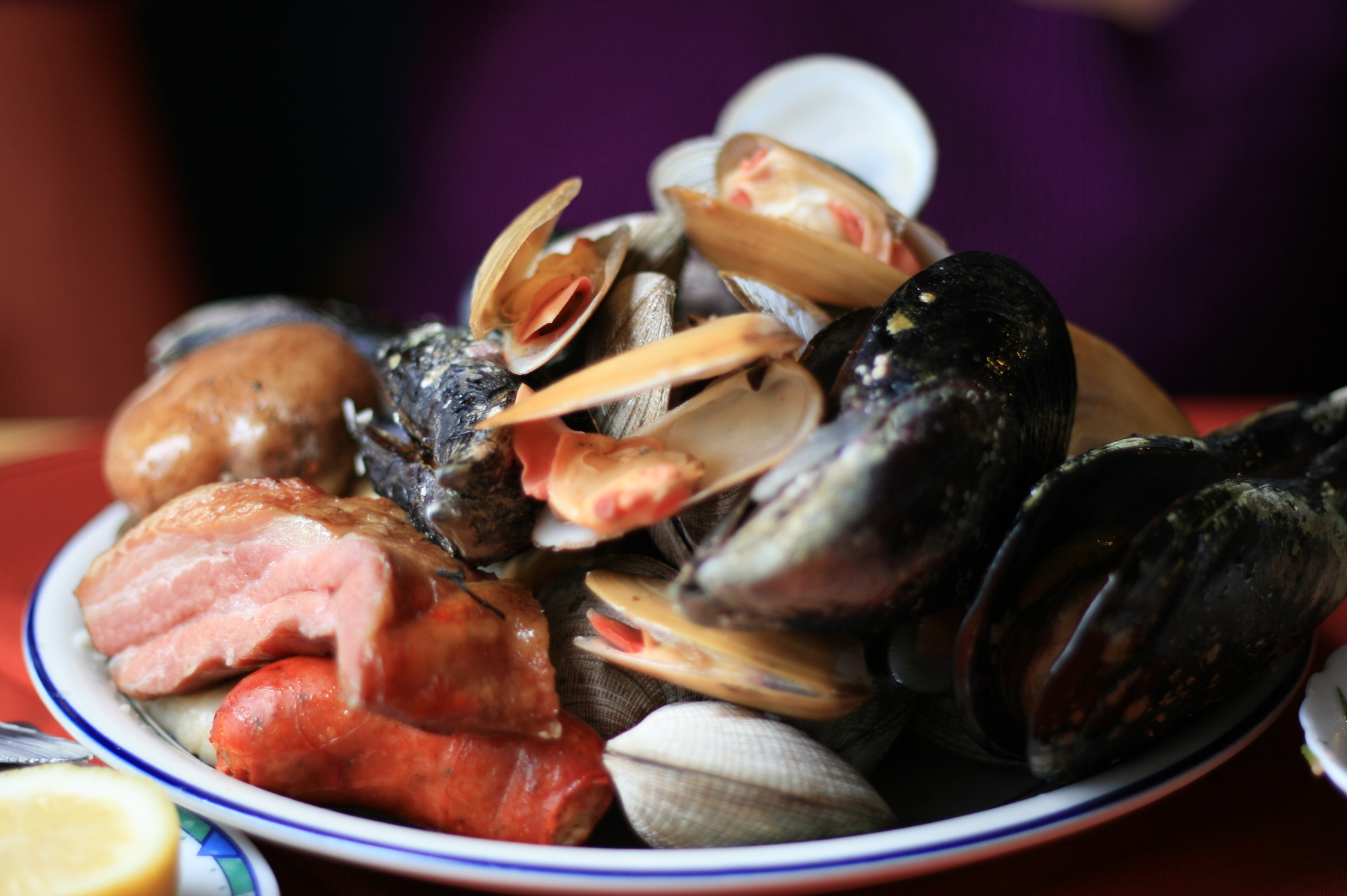 Curanto de la Isla Grande de Chiloe 2009